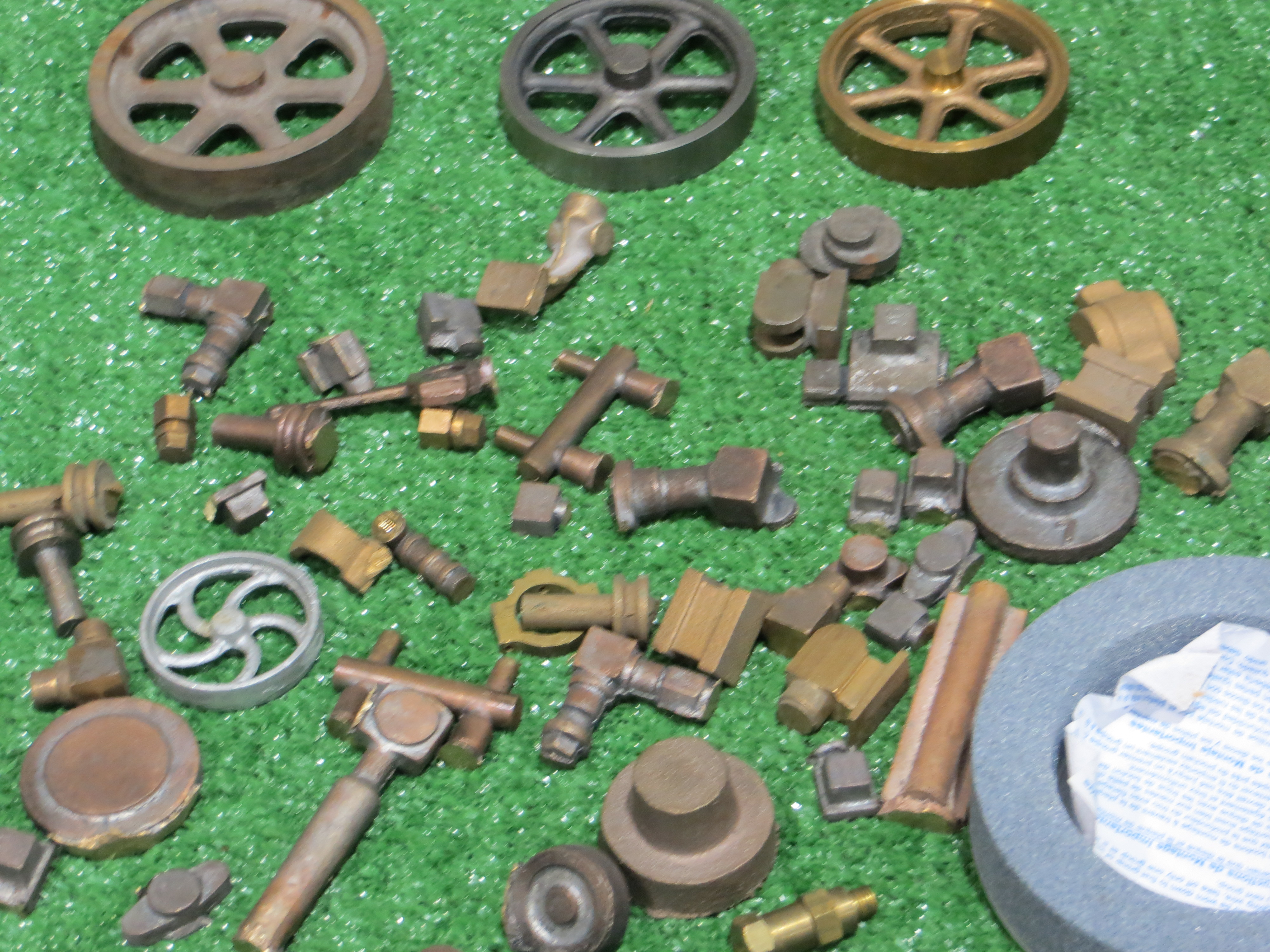 Cabin Fever Model Engineering Show York PA, 2013 pictures